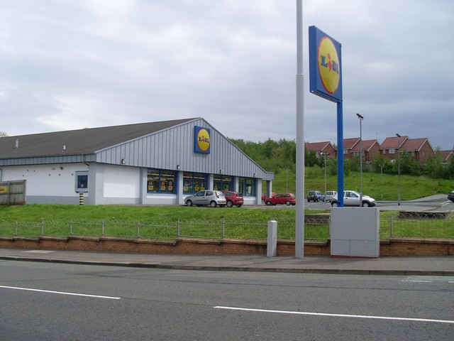 Crookston Lidl Just off of Crookston Road.